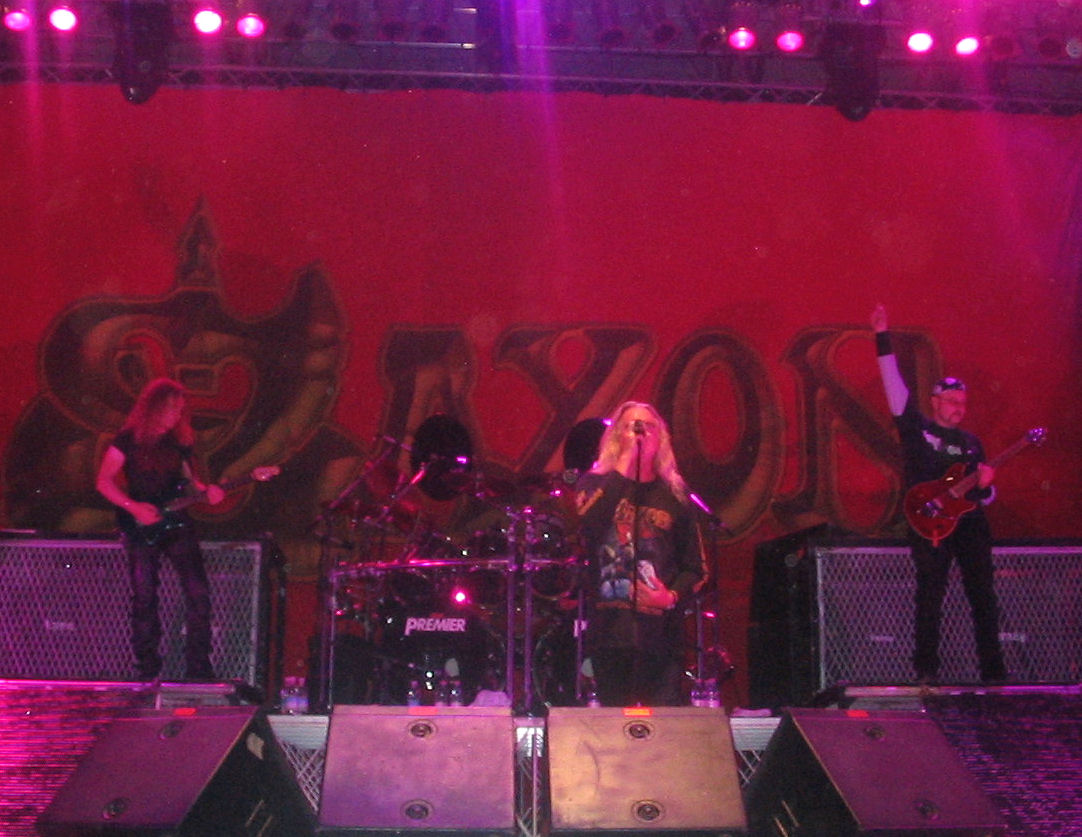 the band Saxon live at the Evolution Festival 2006.